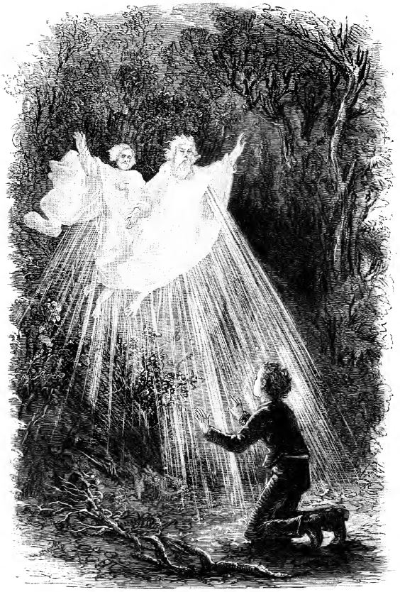 Illustration of Joseph Smith's First Vision, from T. B. H. Stenhouse's The Rocky Mountain Saints.